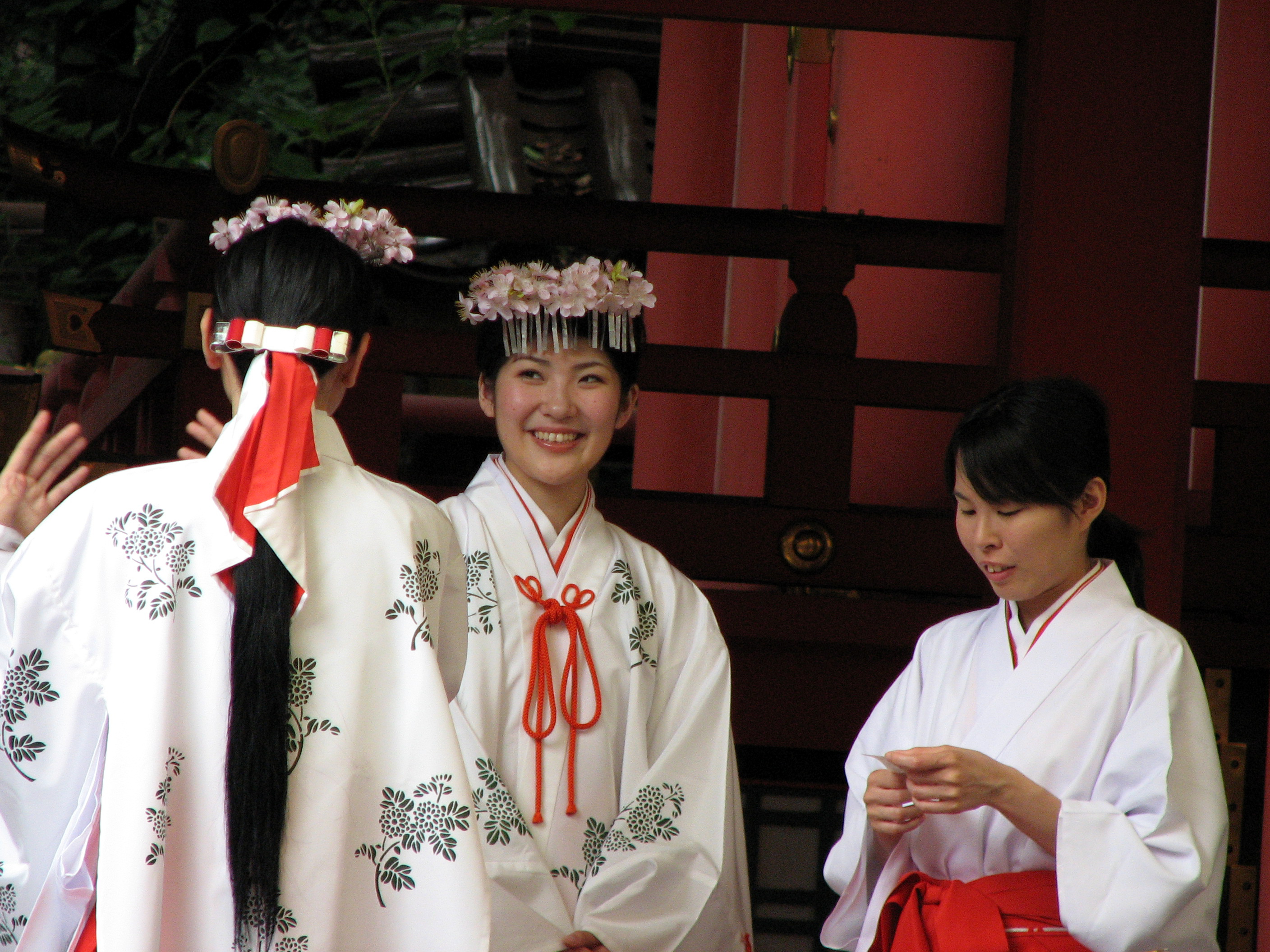 Miko at the Ikuta shrine, preparing for a wedding ceremony